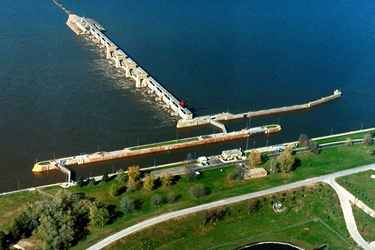 Aerial view of Lock and Dam number 21on the upper Mississippi River near Quincy, Illinois, USA. View is from the Illinois side of the river, looking upriver to the north.